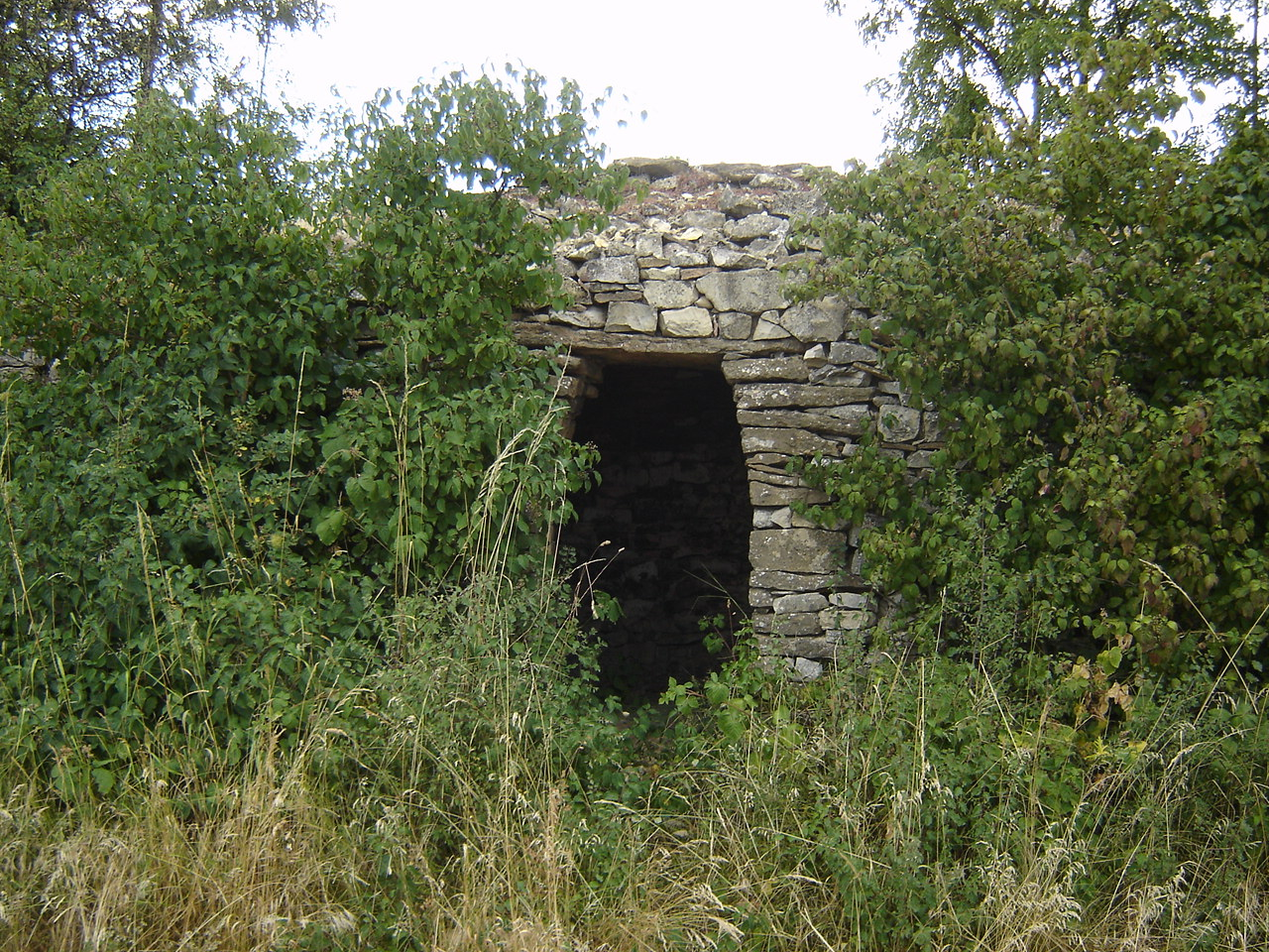 A caborne (local dry stone hut) on the Mont Thoux in the Monts d'Or, Rhône.